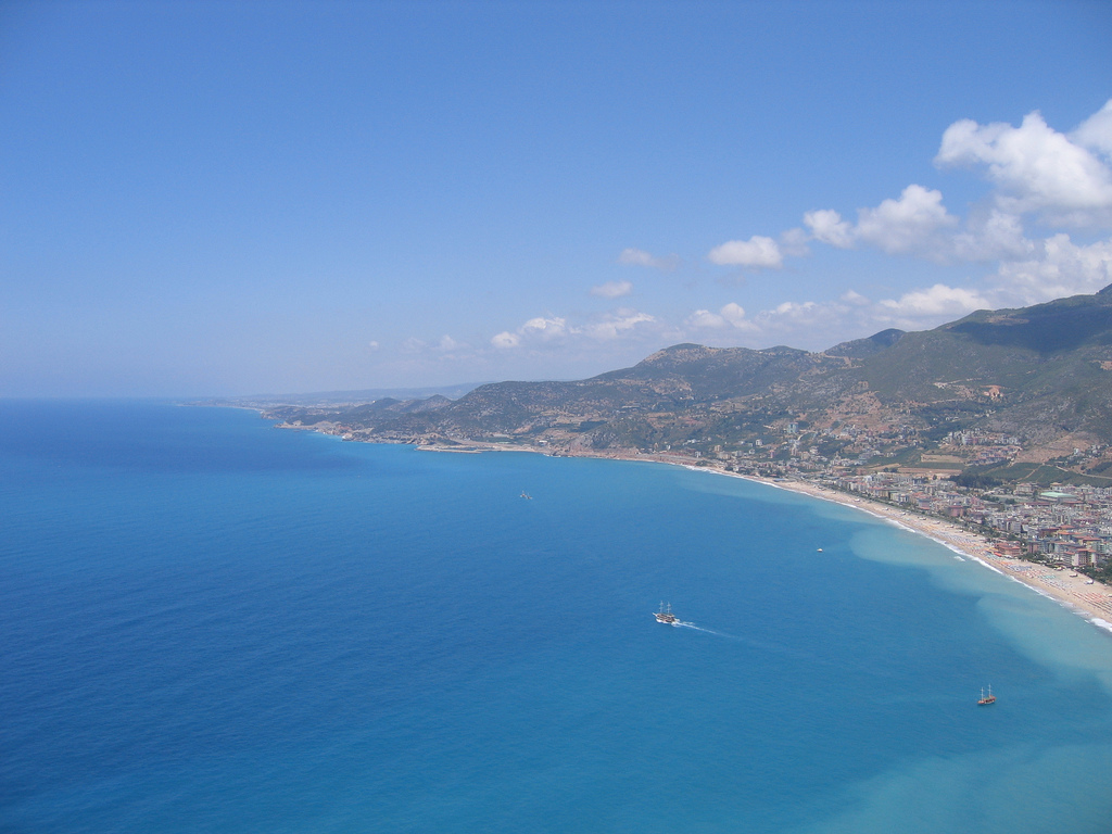 Blick auf den Strand von Alanya. View of Cleopatra Beach and the West part of Alanya from the castle.